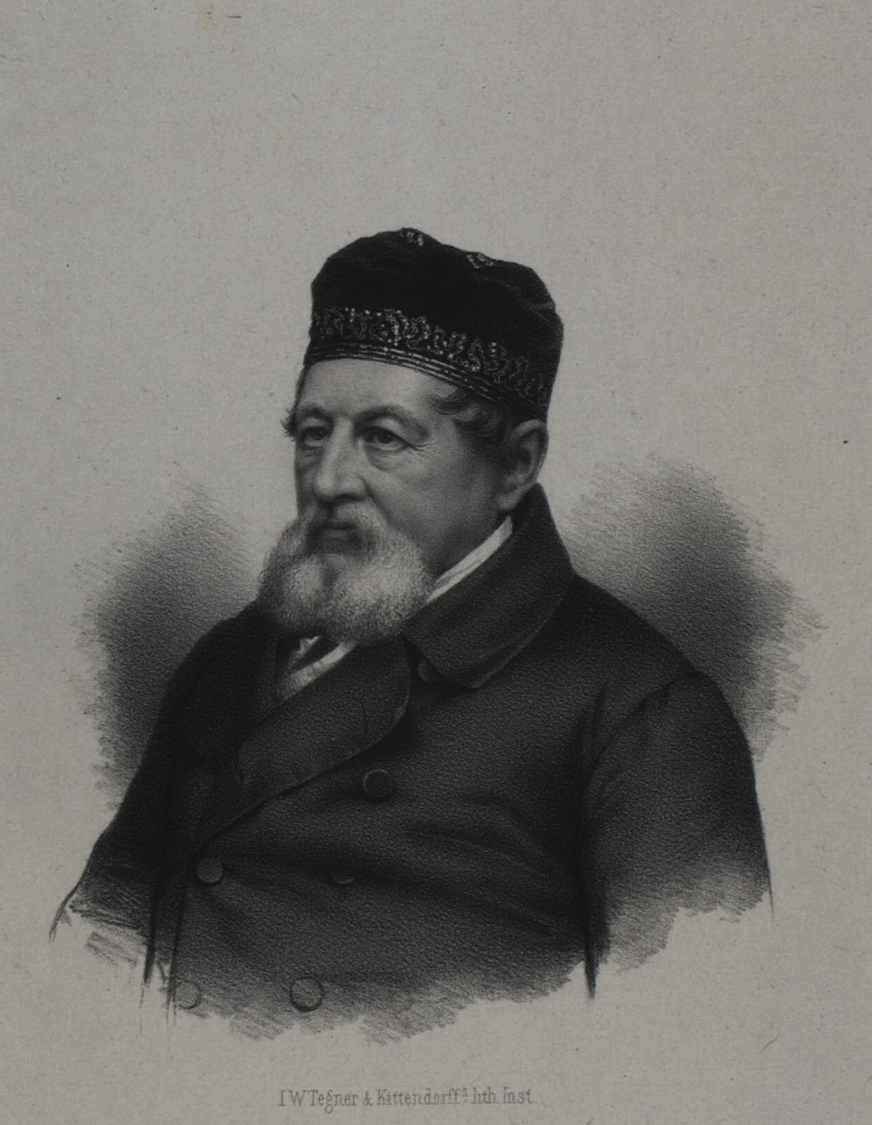 Henrik Gisbert Castenschiold (1783-1856), Danish major general